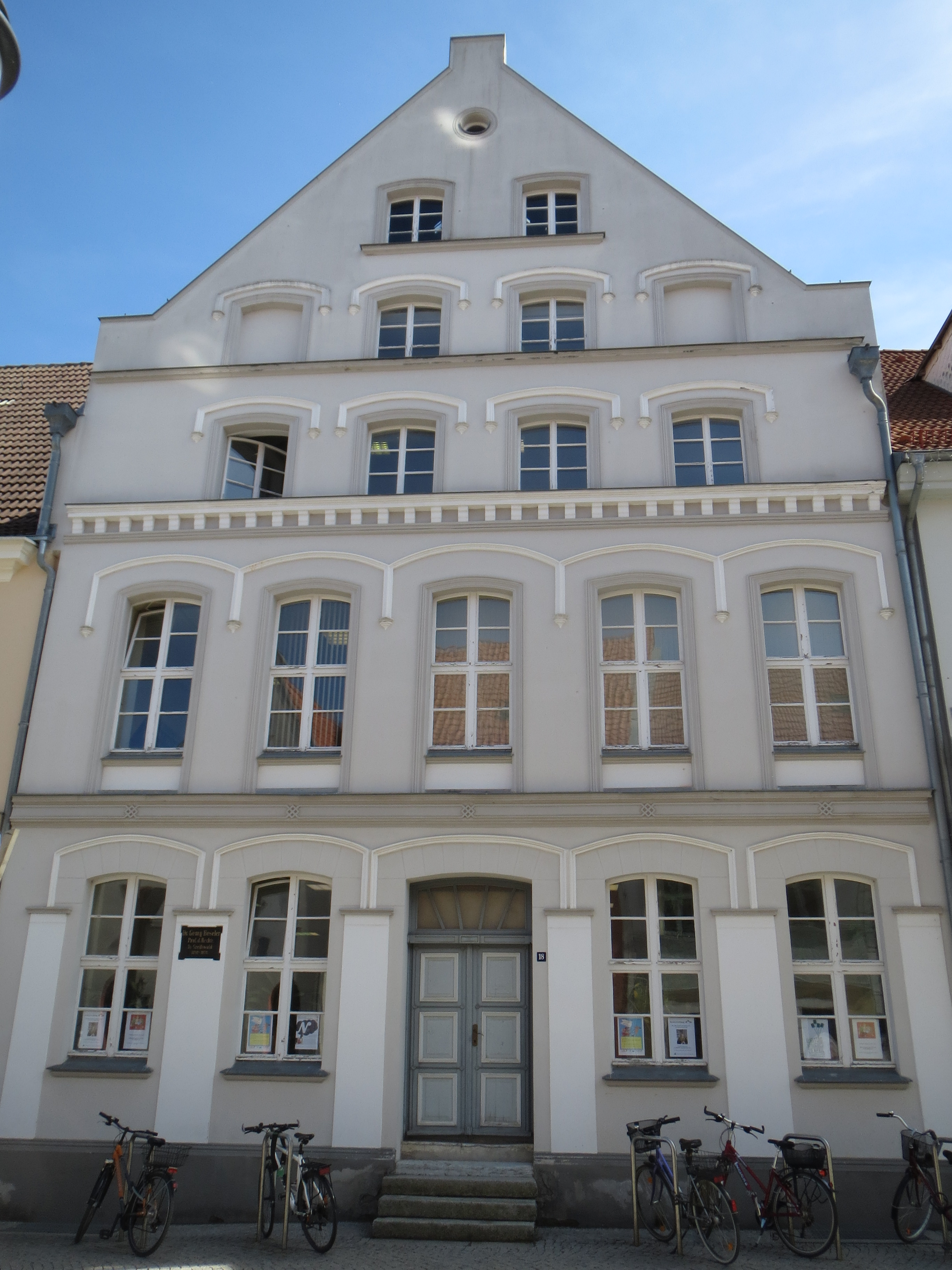 Knopfstrasse 18 in Greifswald